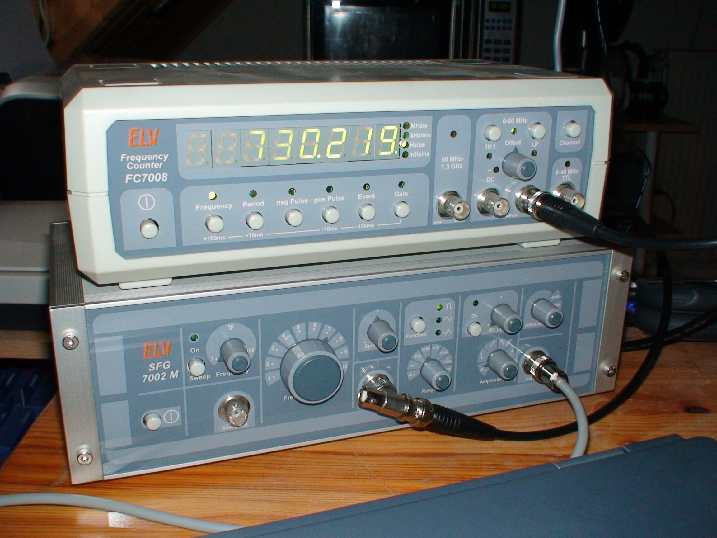 Frequency Counter ELV FC7008 / Function generator ELV SFG 7002 M